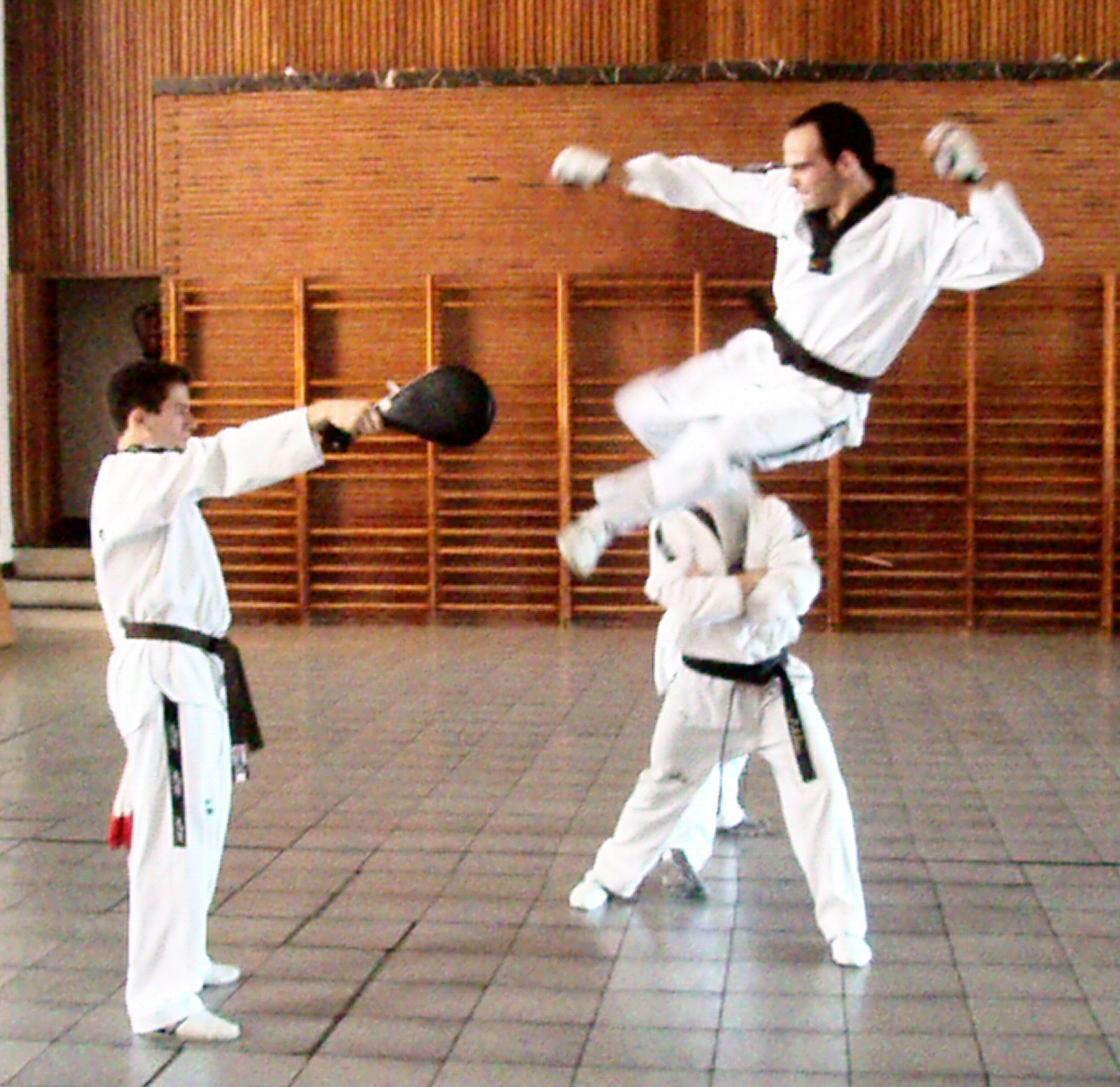 Dolly chagui jump with support (in this case a partner's chest, unable to use a wall for support). Photo taken in advance preparation for an exhibition held by the club Taekwondo Han Mu Do ( at Colegio San Viator.